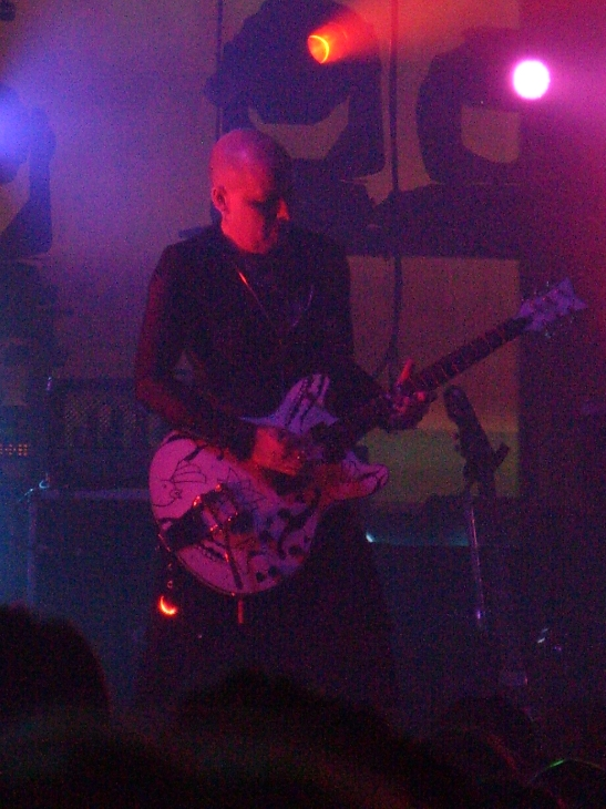 Porl Thompson performing in Prague